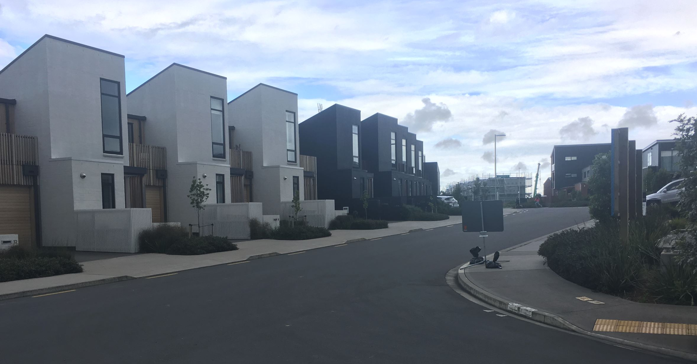 Housing construction on the former site of a hangar for 3 Squadron, Royal New Zealand Air Force, at Hobsonville, Auckland, New Zealand.